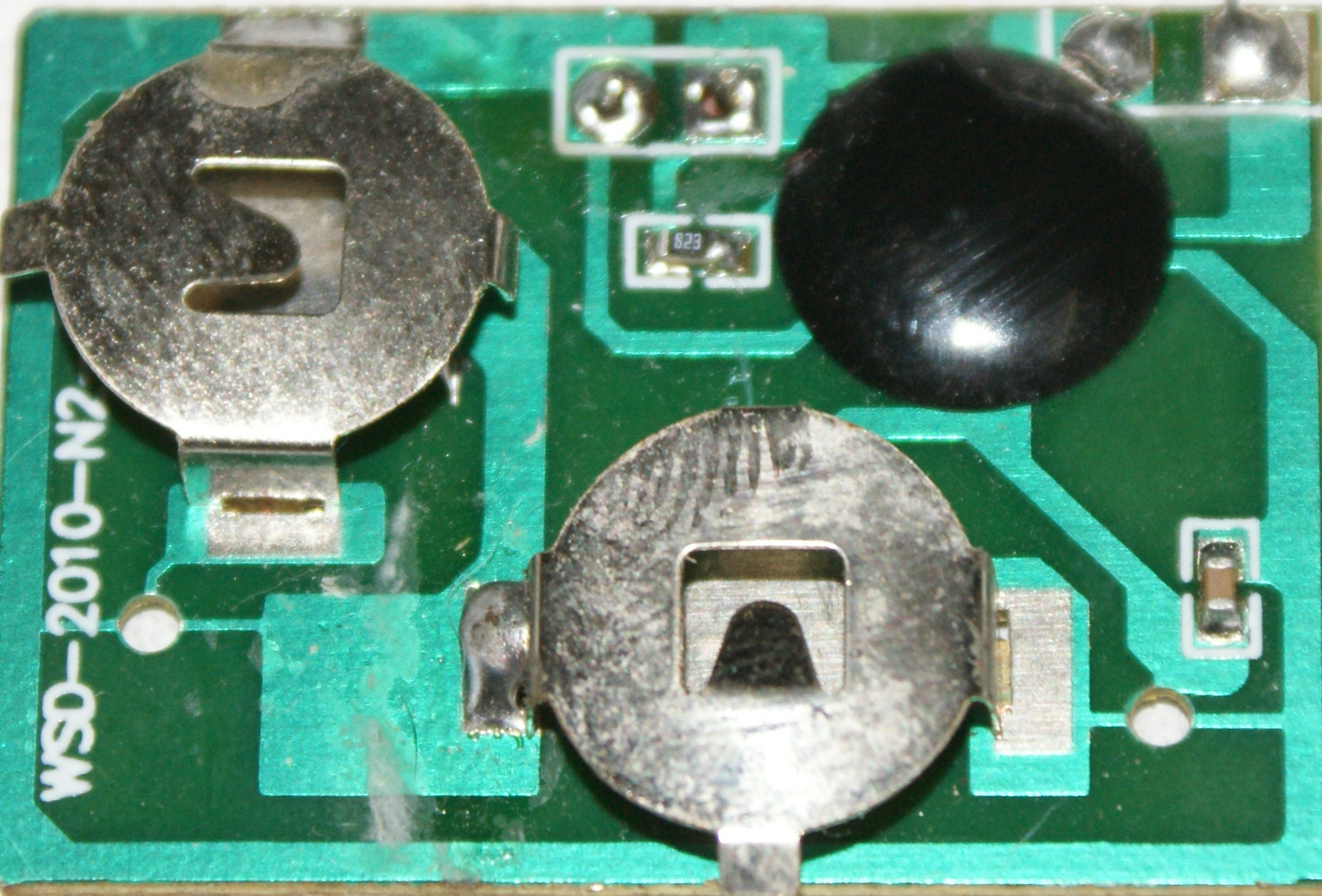 ROM embedded in a PCB (In Black)